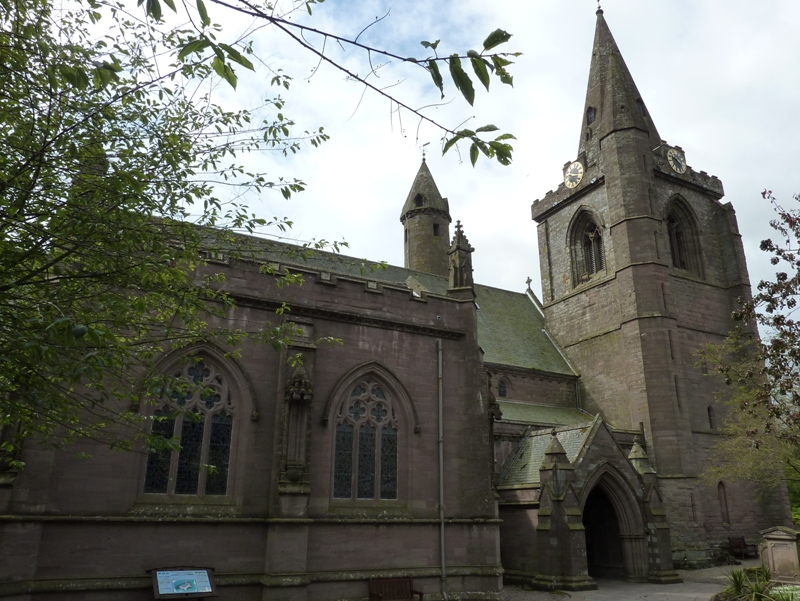 Brechin Cathedral, Brechin, Angus, Scotland - from the south